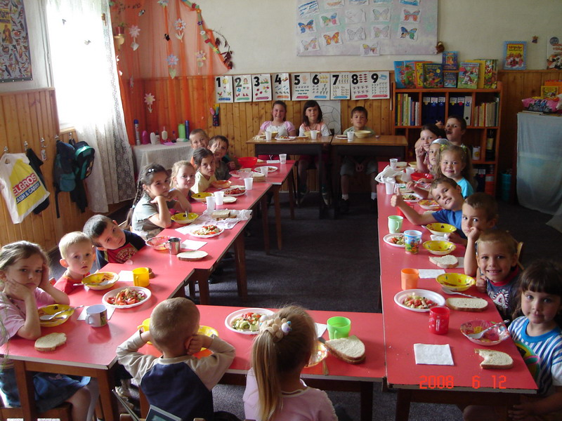 TOKANY